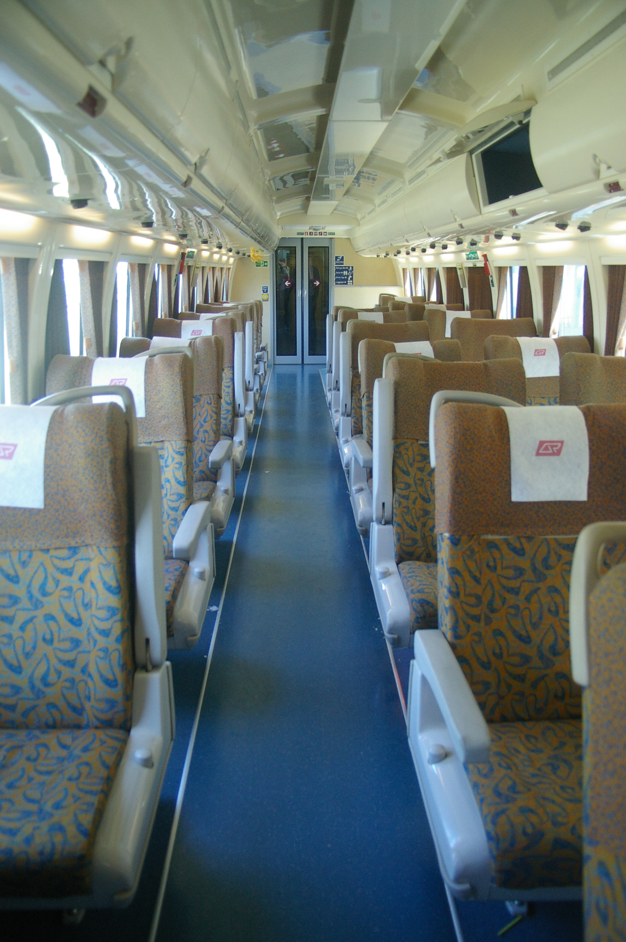 The City of Cairns, a Diesel Tilt Train, is one of three high-speed tilting train services, operated by Queensland Rail on the North Coast line from Brisbane to Cairns.